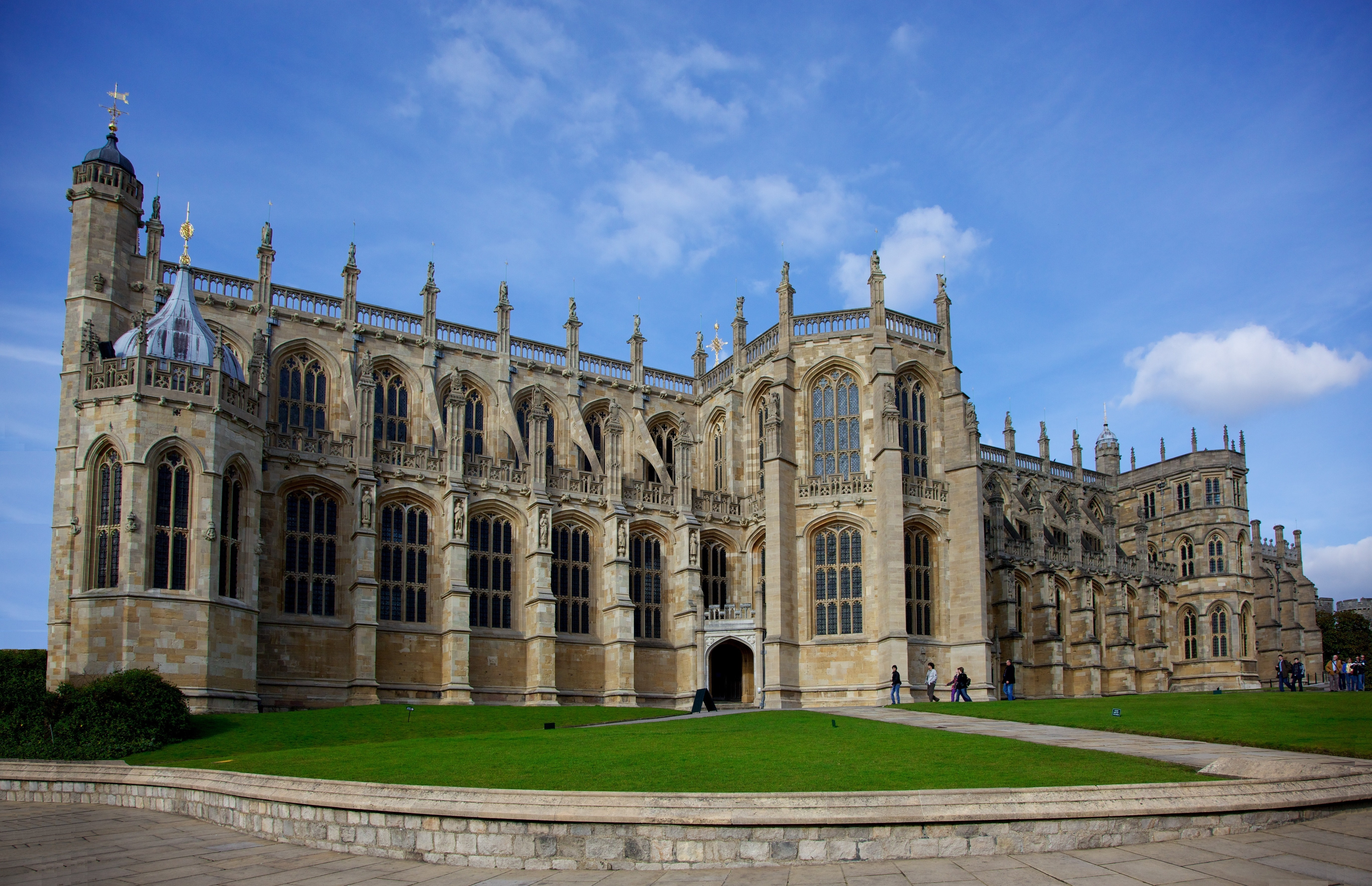 St. Georges Chapel, Windsor Castle